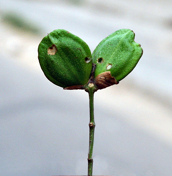 Fruit of the Harshingar or Parijat plant (Nyctanthes arbor-tristis) in Kolkata, West Bengal, India.